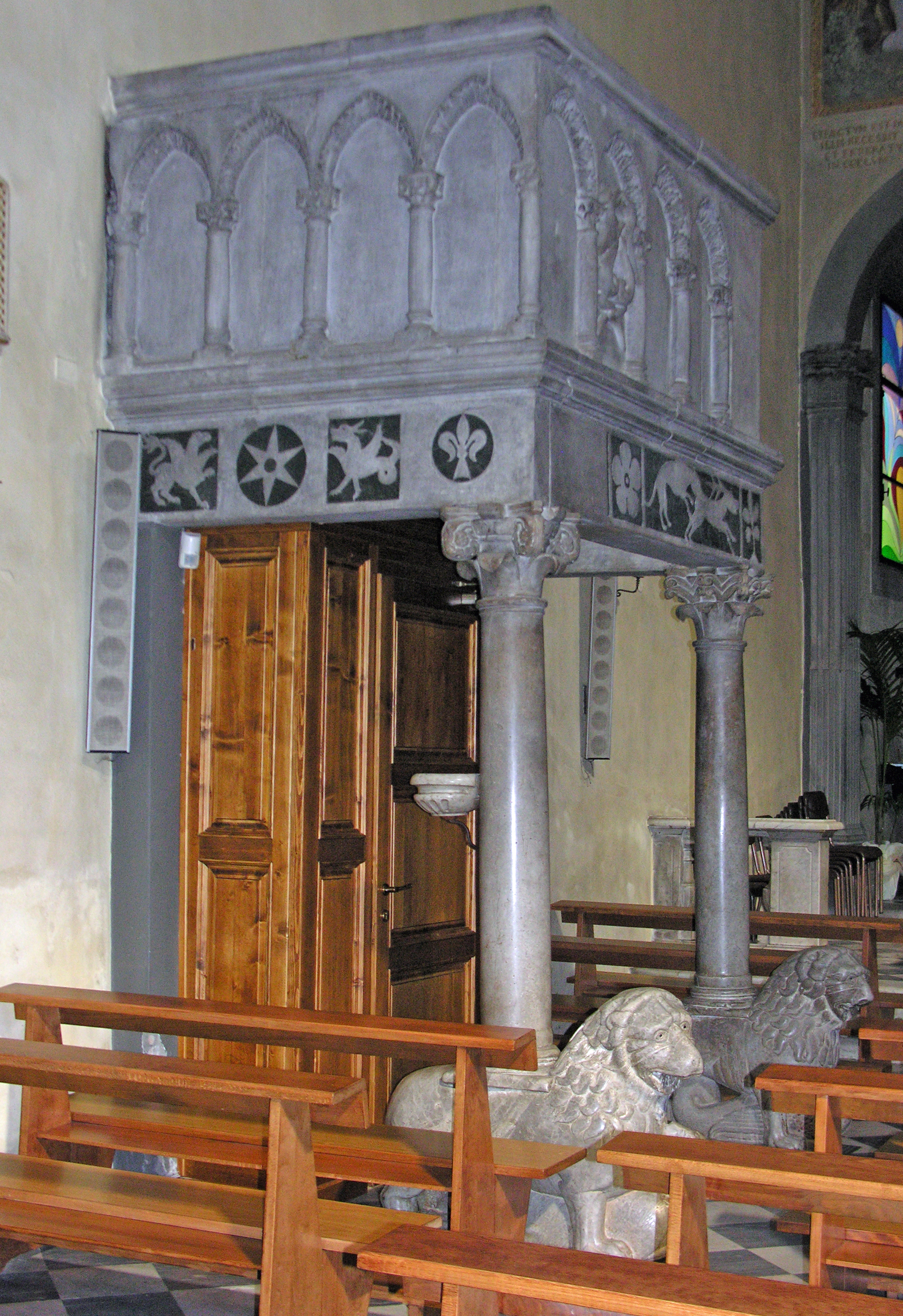 marble pulpit inside of the collegiate church of Santa Maria a Monte